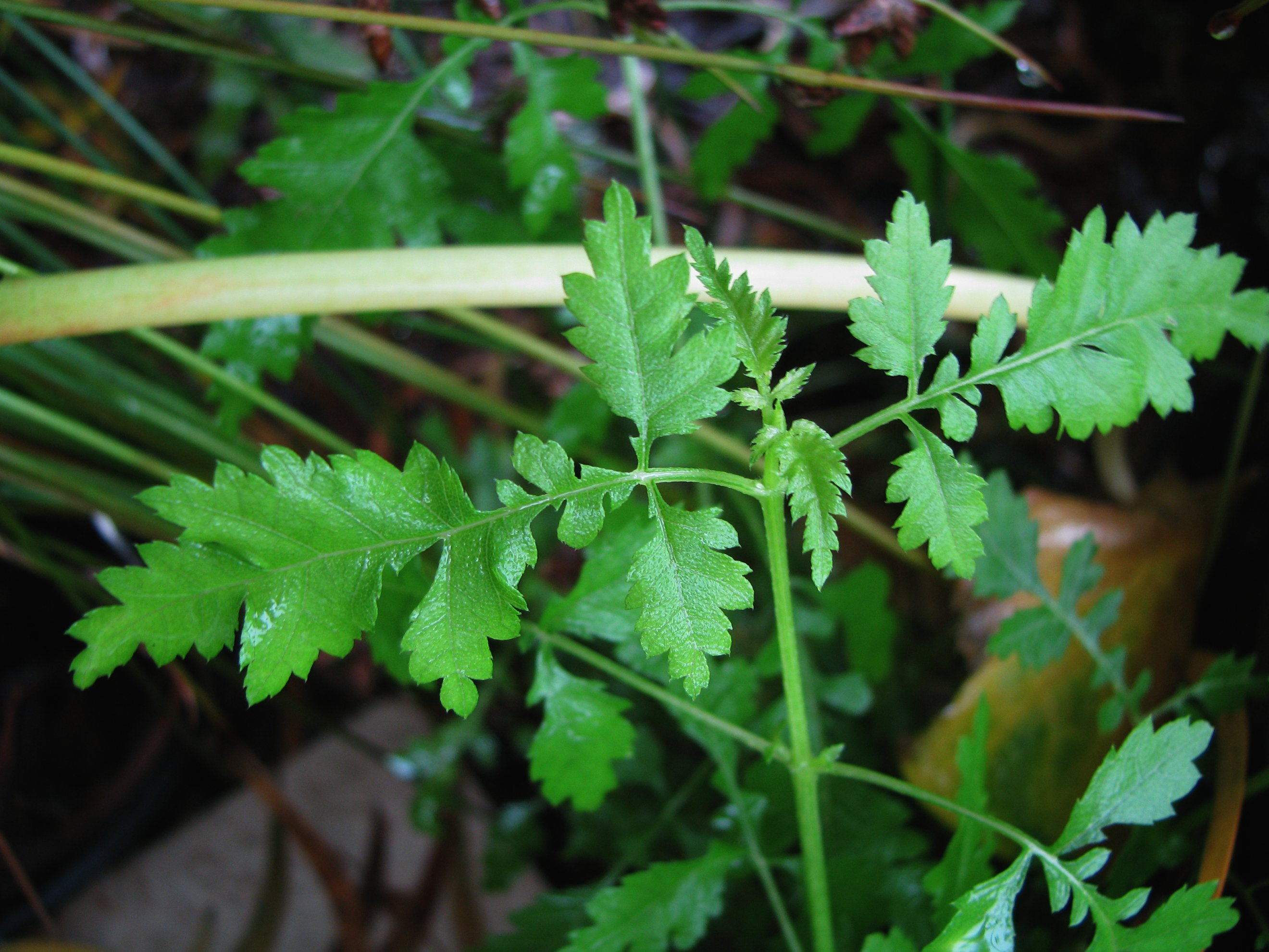 Nehe Asteraceae Endemic to the Hawaiian Islands (Kauaʻi only) Endangered Oʻahu (Cultivated)